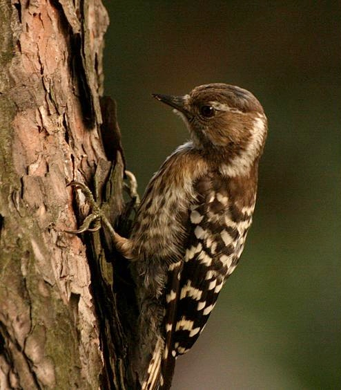 Pygmy Woodpecker, Dendrocopos kizuki Observed in Changwon City, South Korea